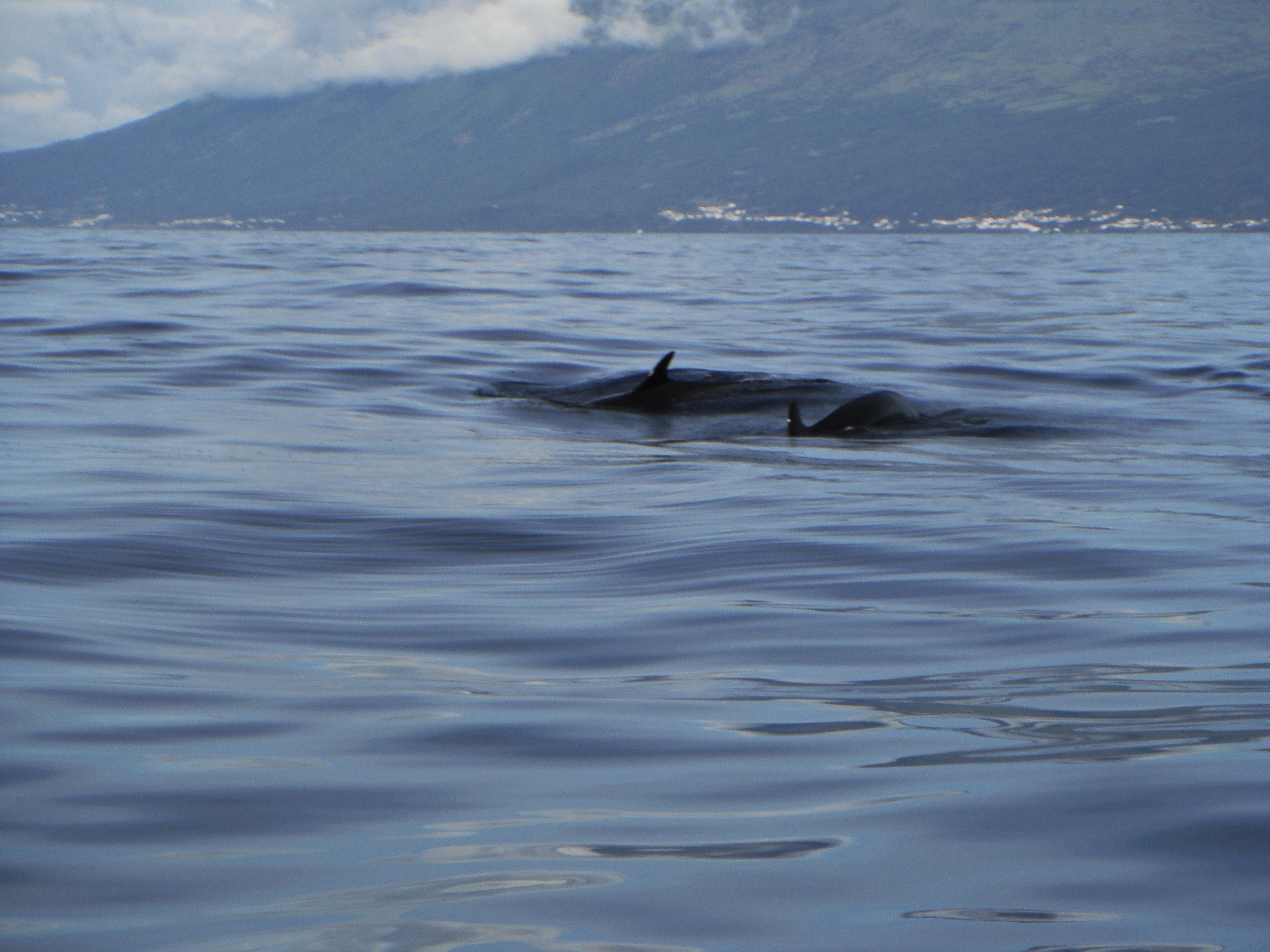 Pseudorca crassidens hunting